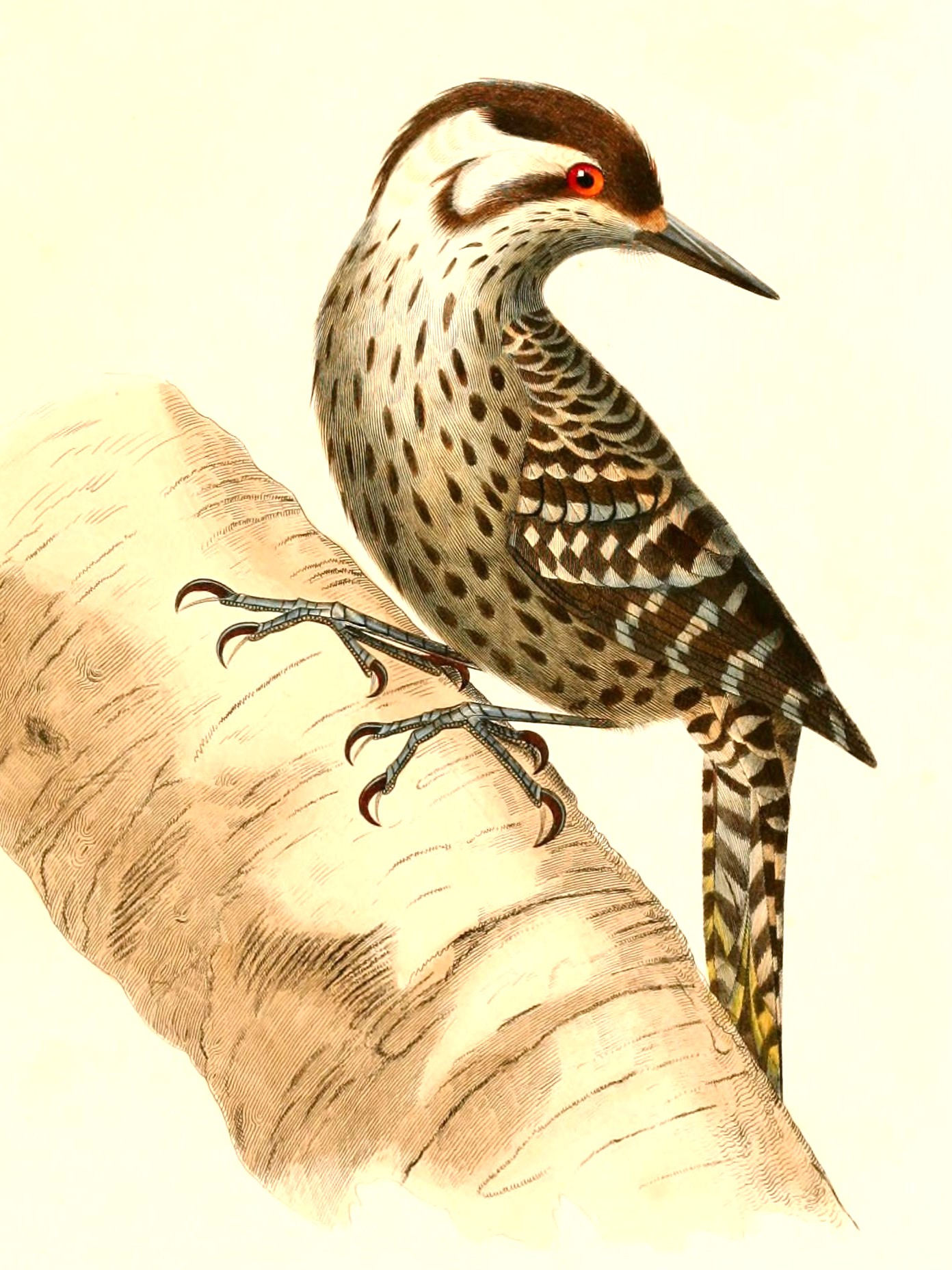 « Picus puncticeps » = Veniliornis lignarius (Striped Woodpecker)